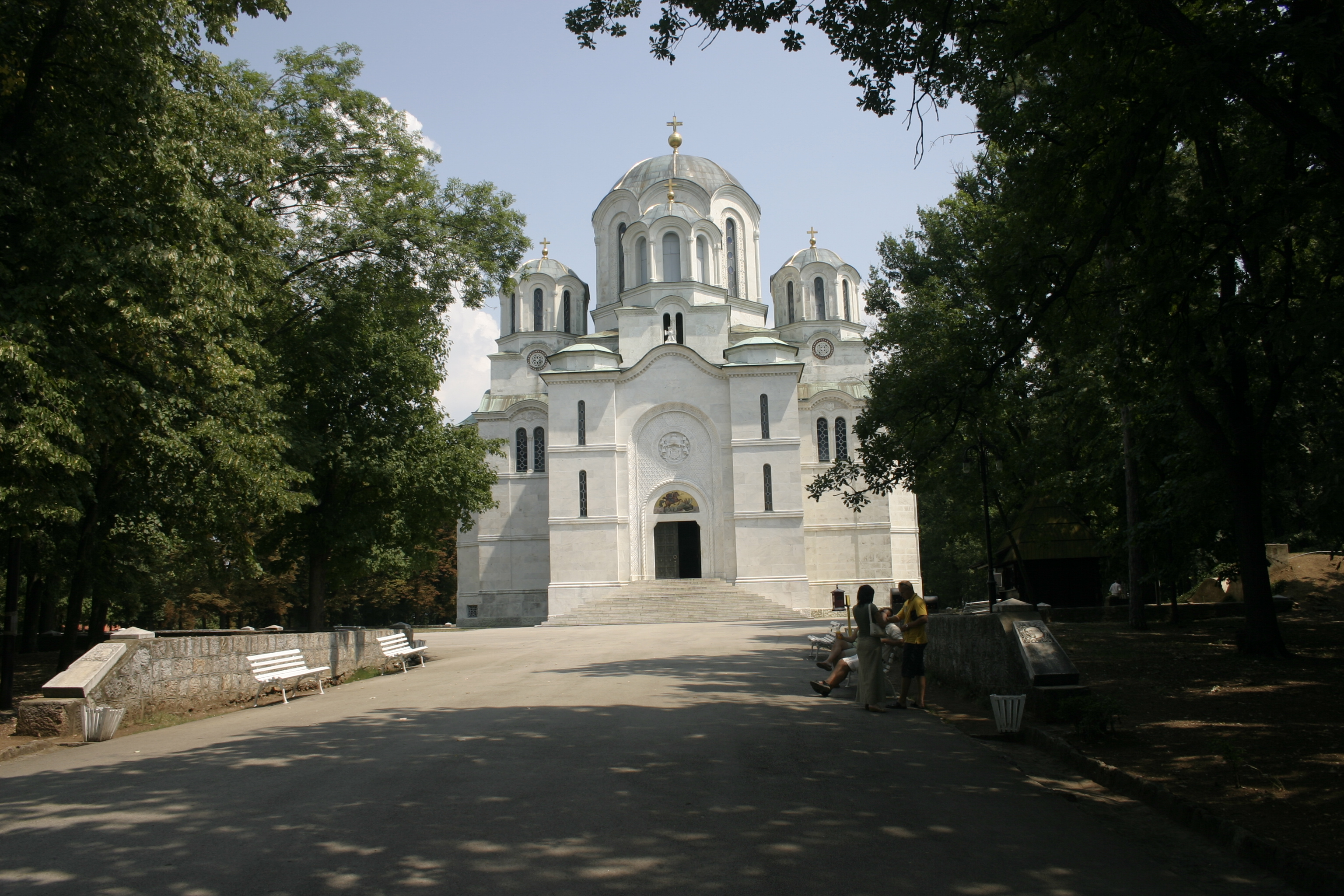 Church of St. George in Topola